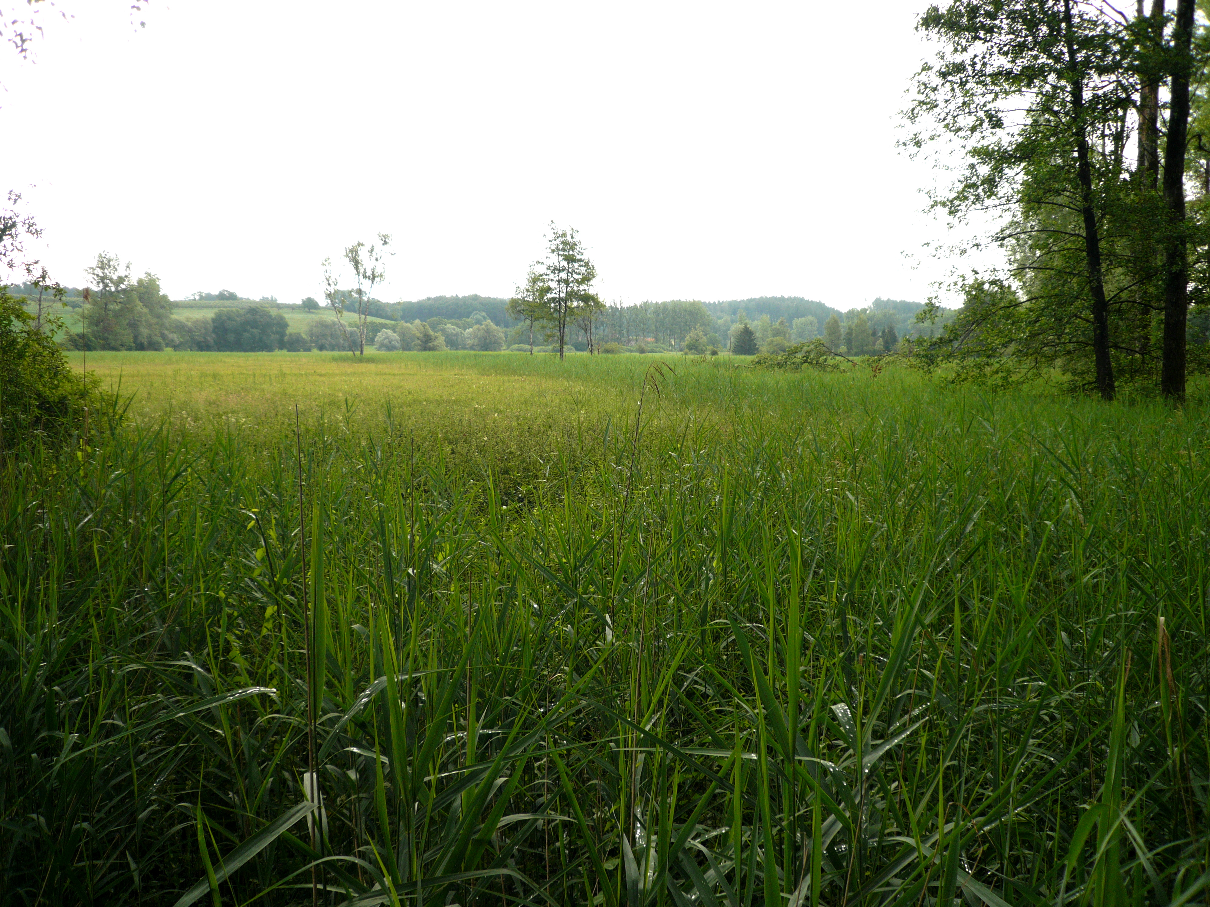 Altweiherwiese, a natural reserve in Oberteuringen near Friedrichshafen; Germany